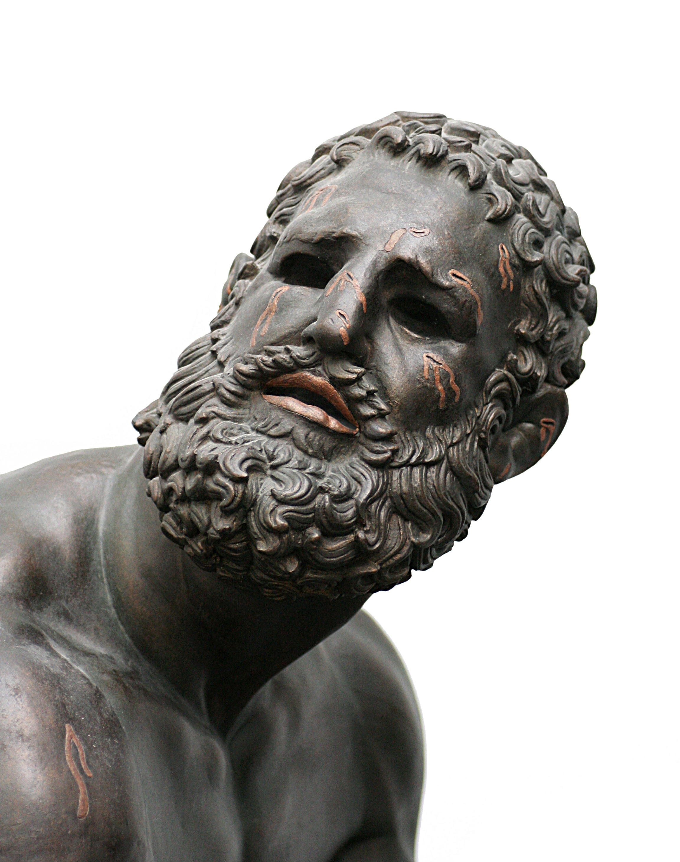 Modern copy of the Boxer of Quirinal, a Greek bronze statue from the 1 century b.C.